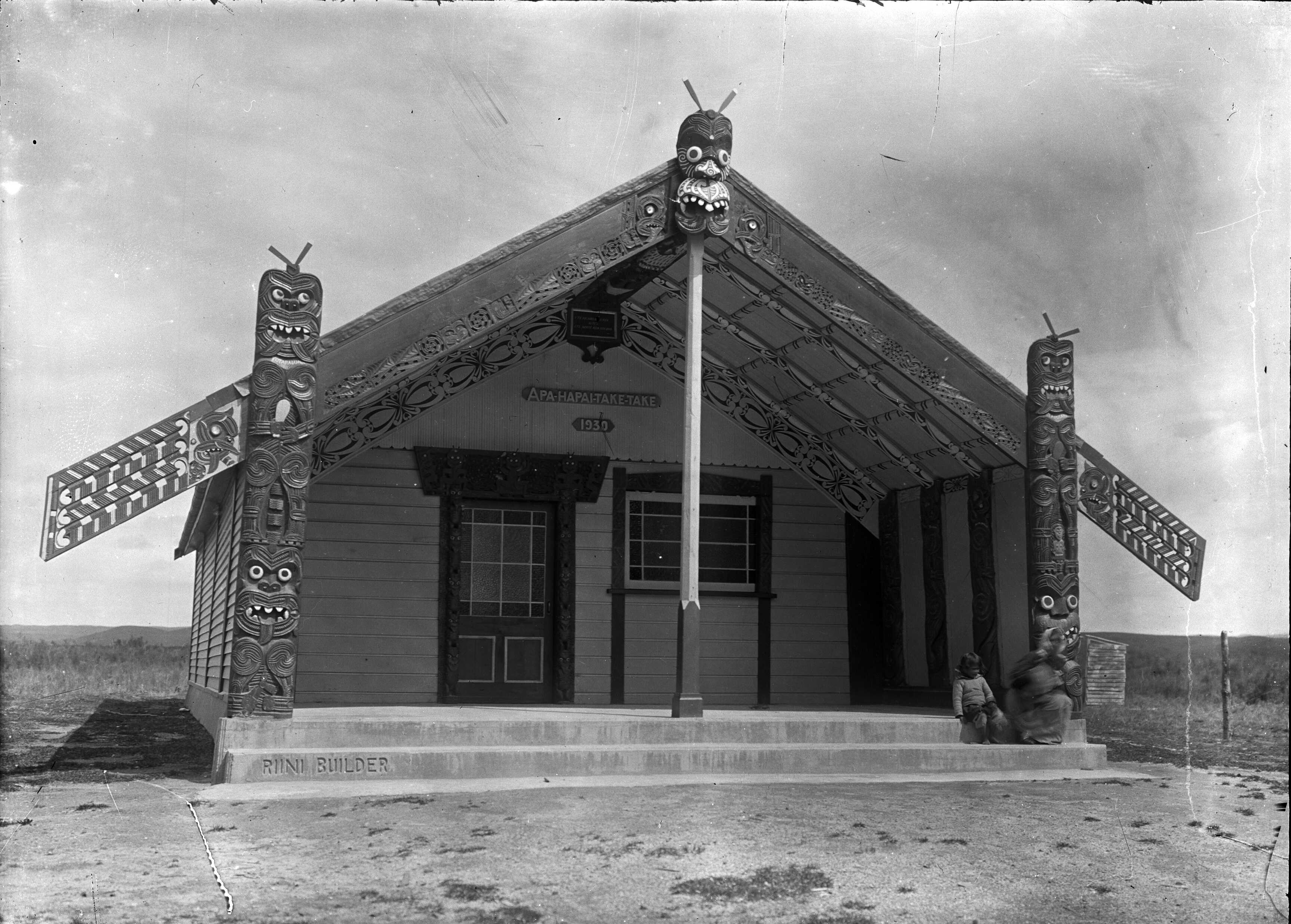 Apa-Hapai-Take-Take meeting house at Murupara. Photograph taken by Albert Percy Godber circa 1930-1949.